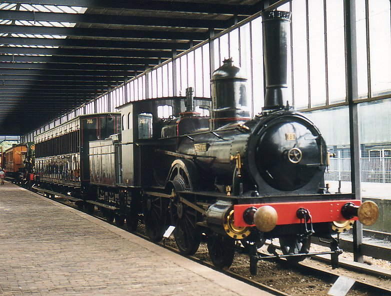 Preserved former HSM steam locomotive 89 'Nestor' in the Dutch Railwaymuseum